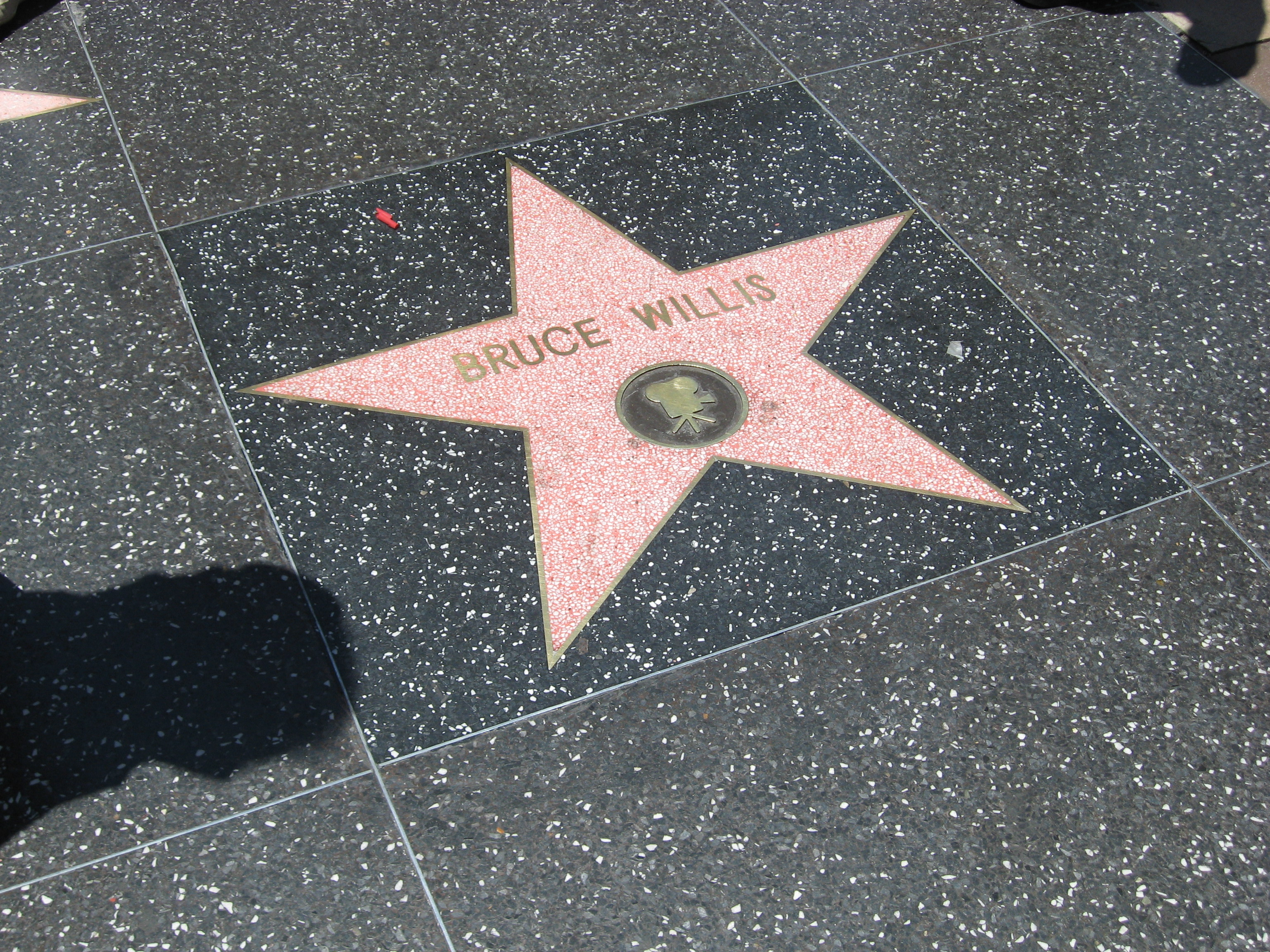 Bruce Willis' star on Hollywood walk of Fame